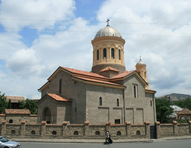 Central Cathedral of Gori